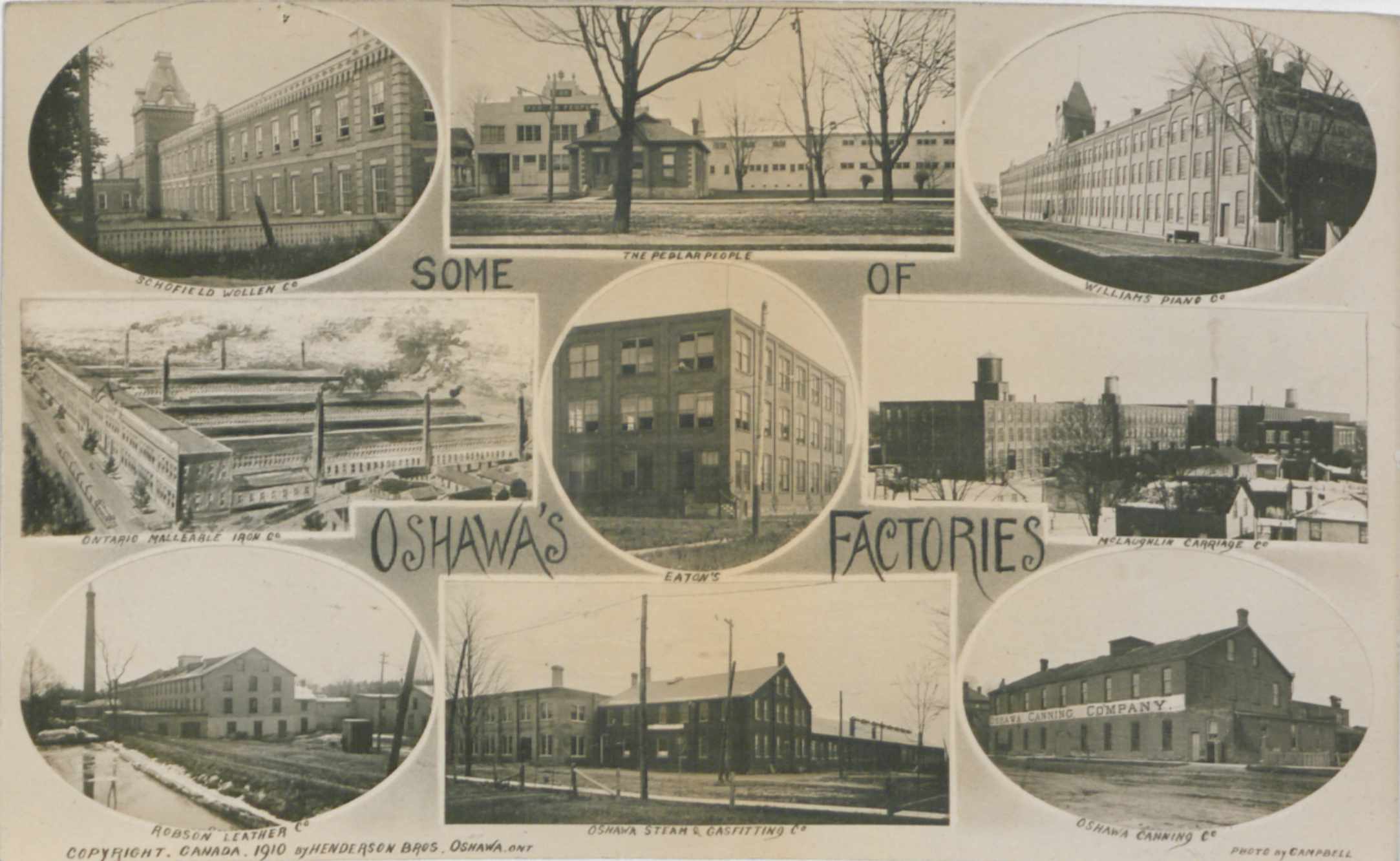 Original caption: “Oshawa's Factories.”